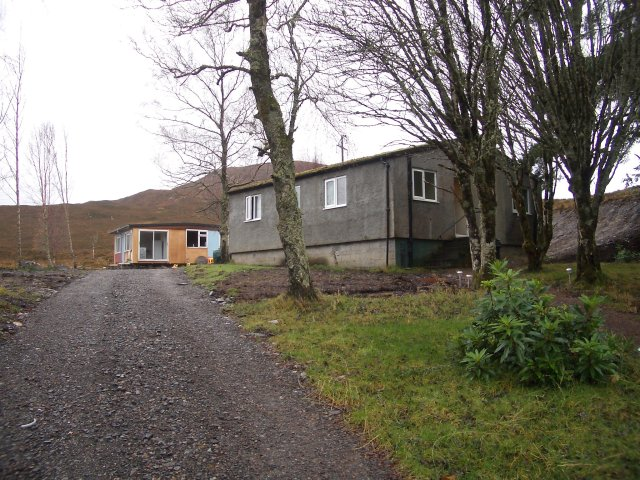 Bunkhouse Bunkhouse accommodation adjacent to the Ledgowan Hotel.